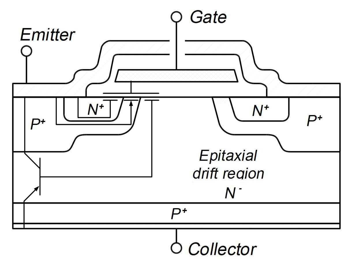 This drawing was created by me.